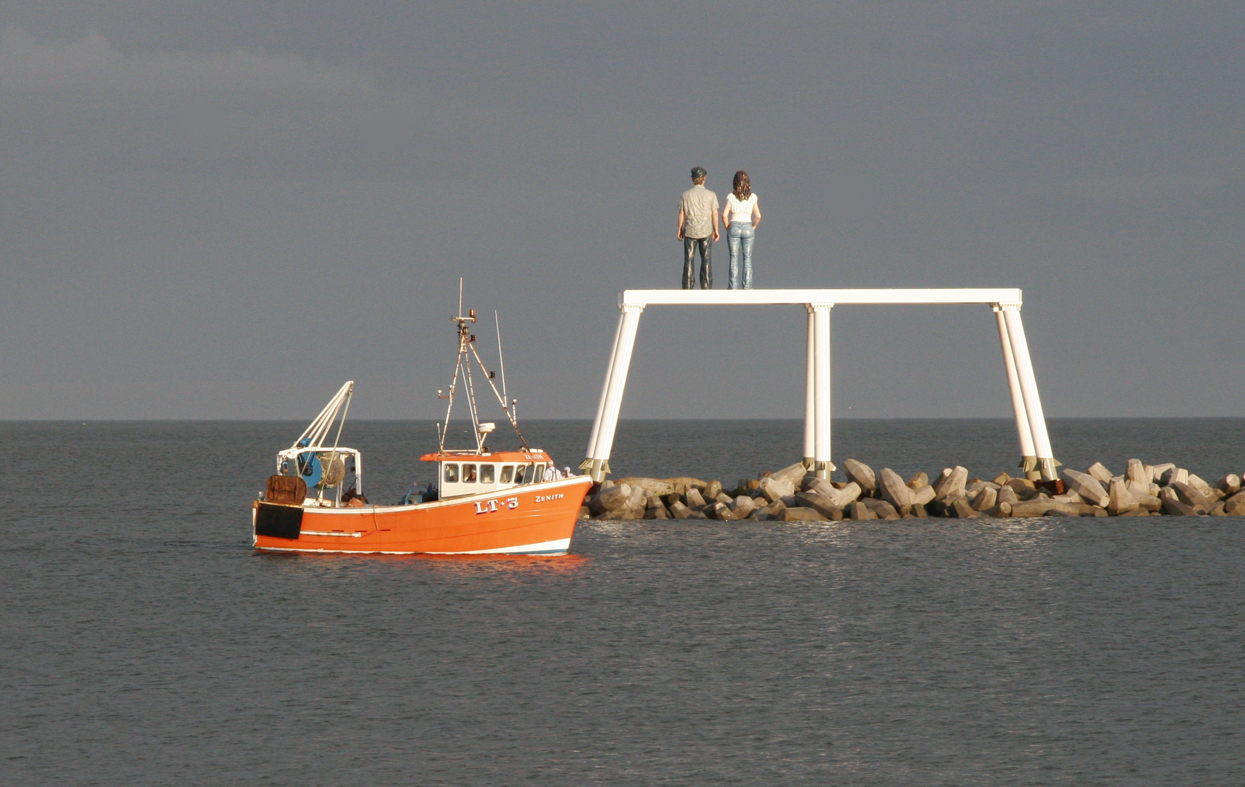 Bronze sculpture by Sean Henry